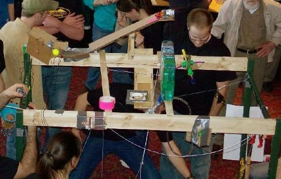 Many designers of Rube Goldberg machines participate in competitions, such as this one in New Mexico.